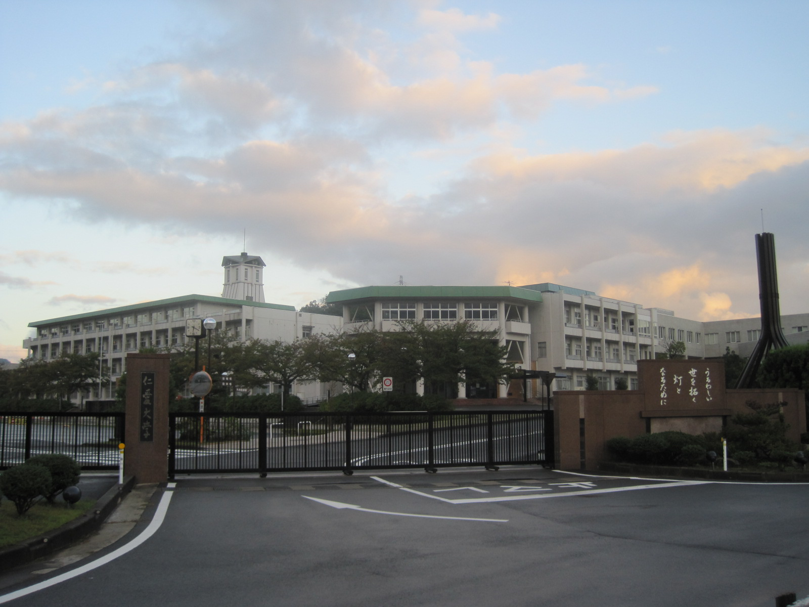 Jinai University(Echizen city, Fukui prefecture)